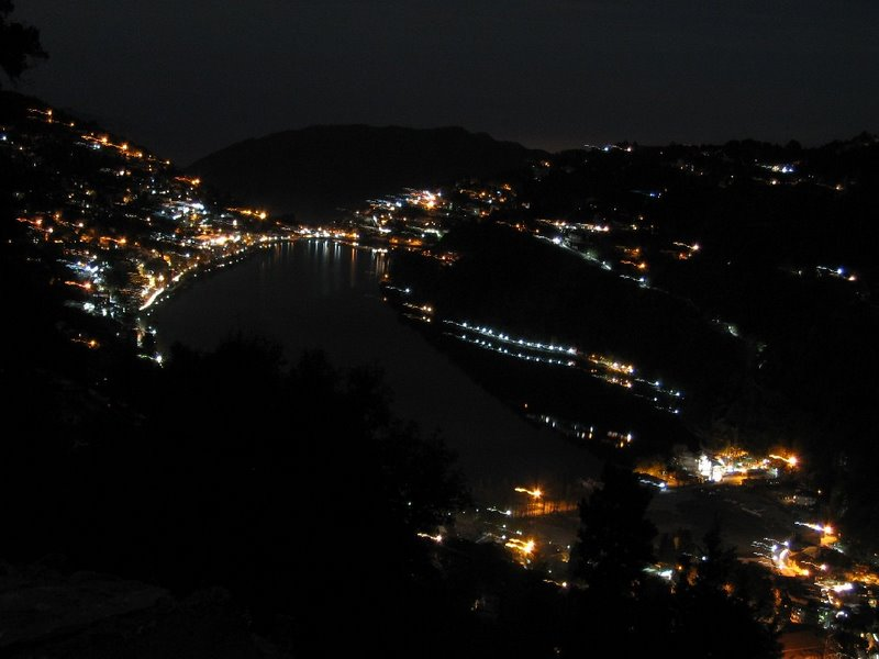 Nainitaal, Uttarakhand (May, 2005)